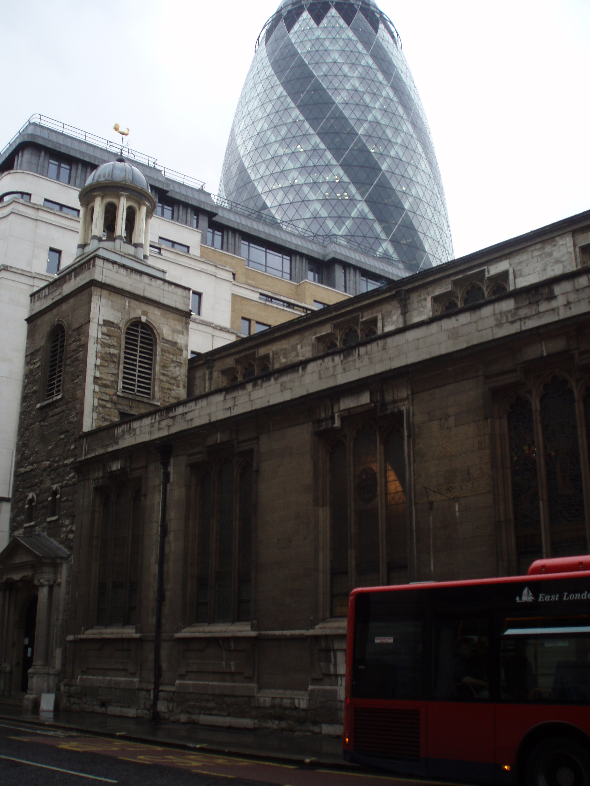 St Katherine Cree with the 'Gherkin' behind. Photo taken 23rd August 2007